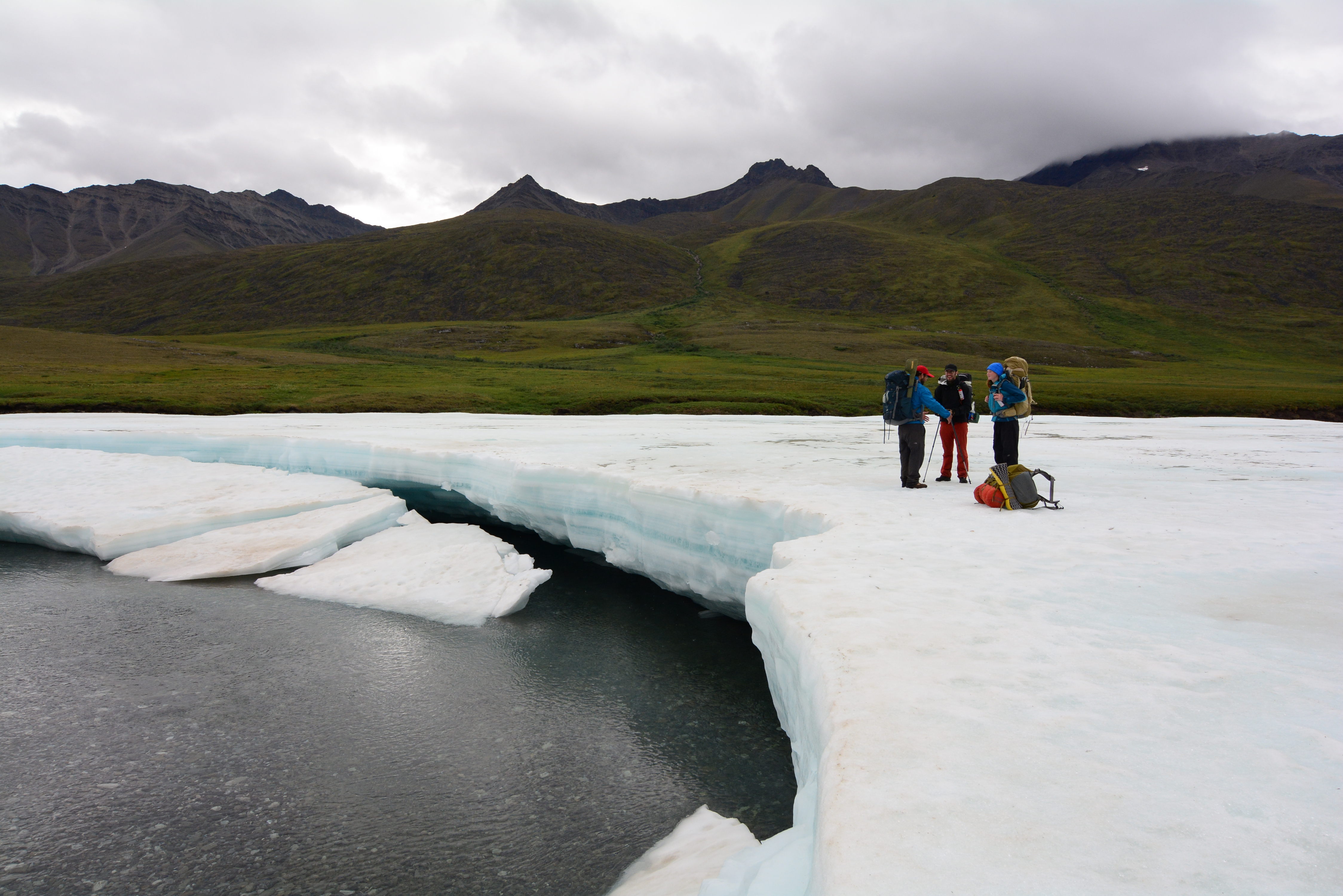 A group of hikers travels over a large sheet of aufeis in the Anaktuvuk River Valley. Gates of the Arctic National Park and Preserve, Brooks Range Mountains, Alaska.